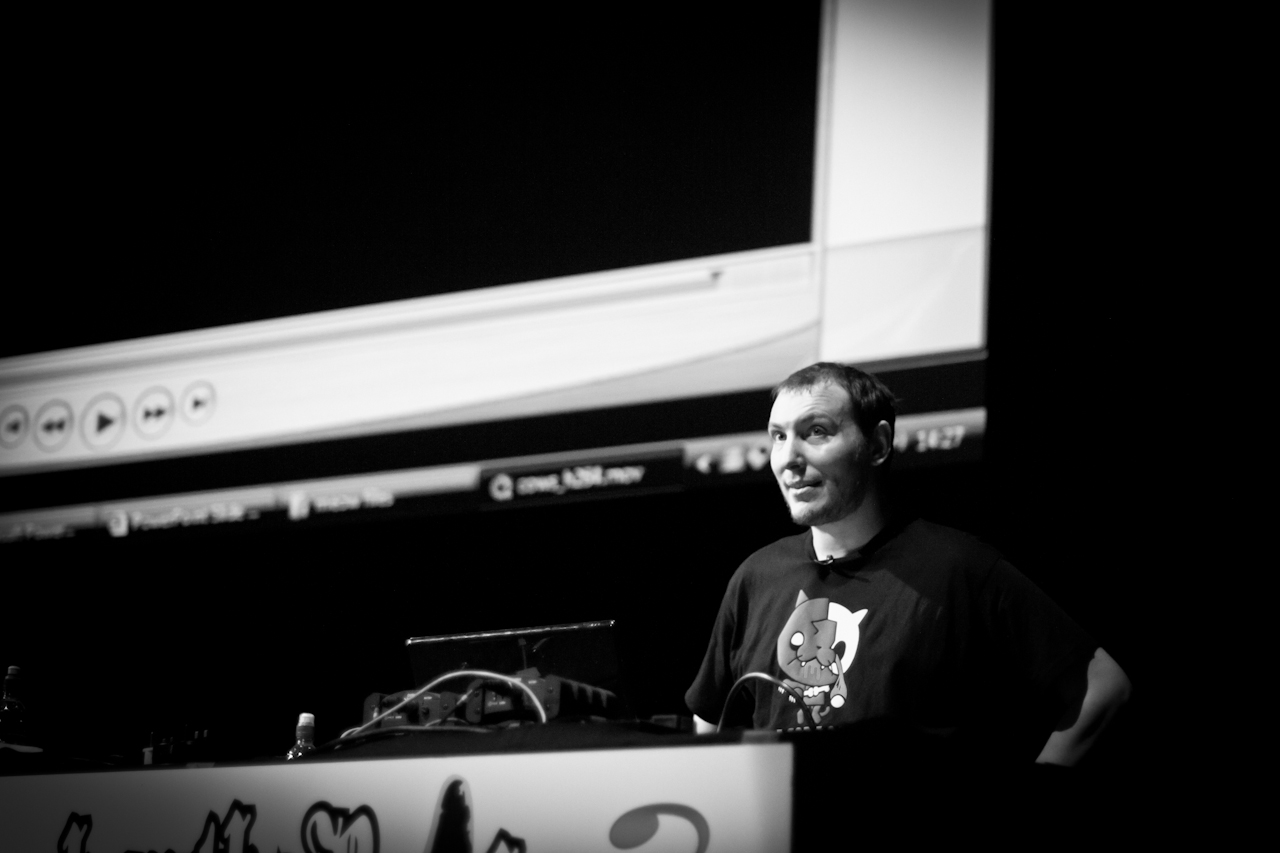 Cyriak Harris is a British freelance animator better known by his first name Cyriak, and his B3ta username Mutated Monty. He is known for his surreal and often disturbing short web animations.